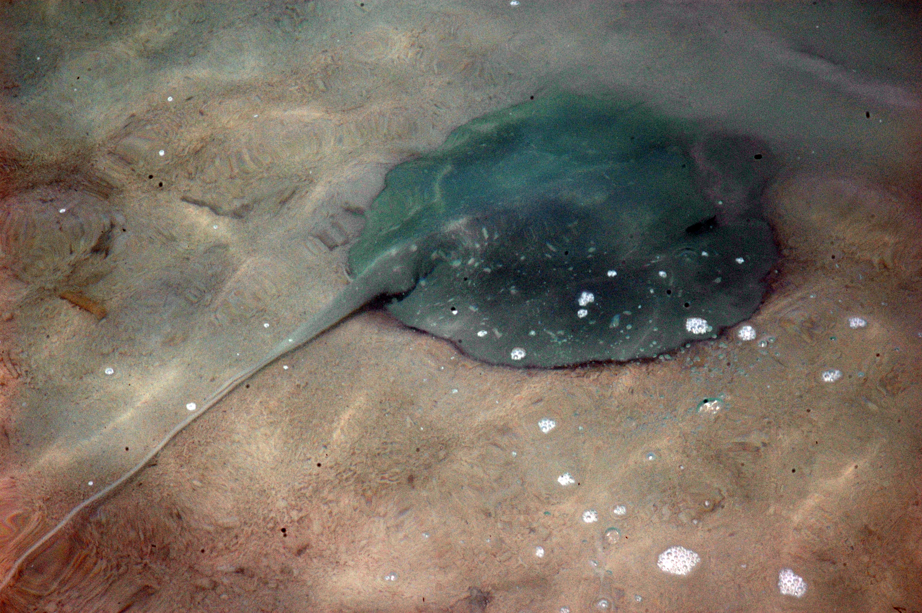 Mangrove whipray (Himantura granulata) in the Maldives